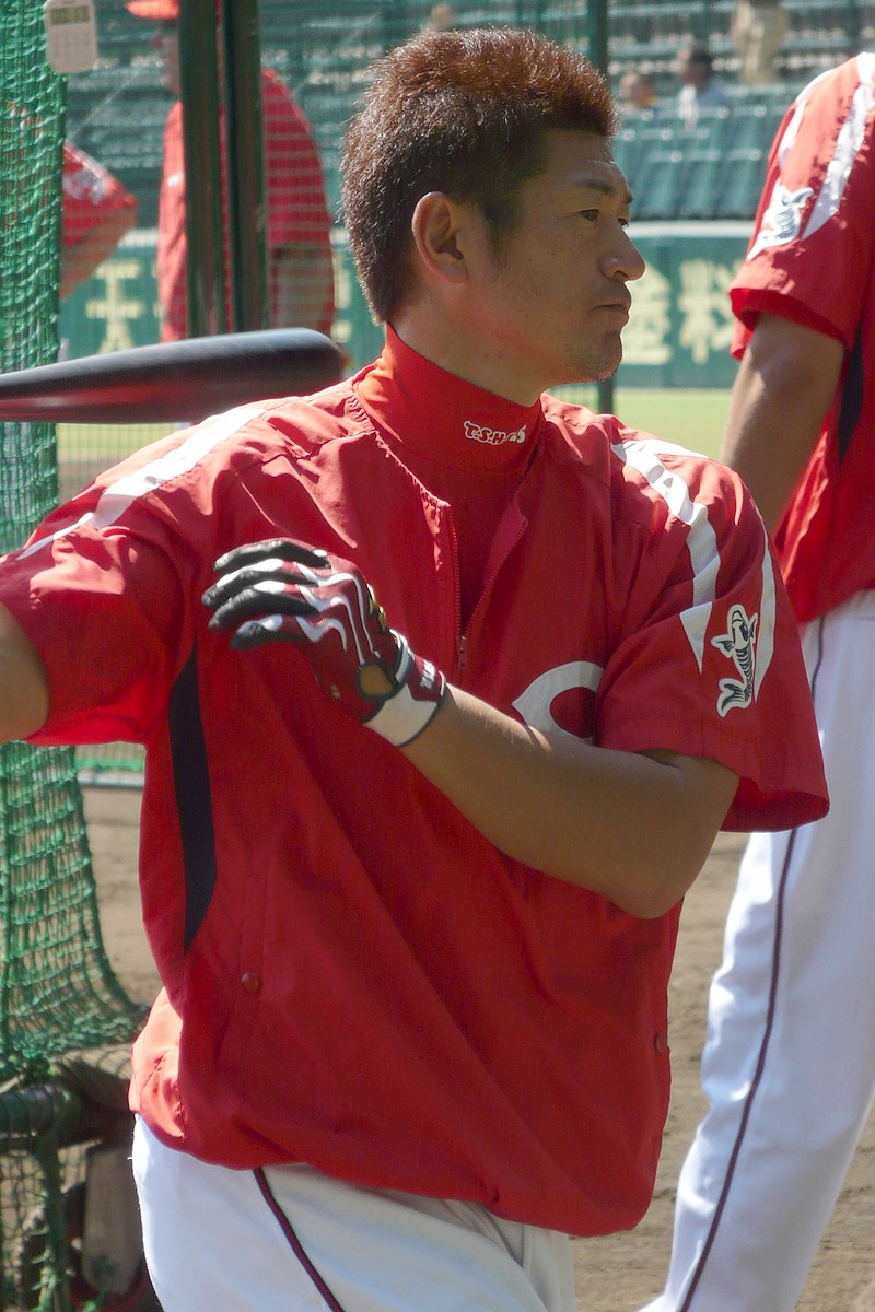 Takuro-Ishii